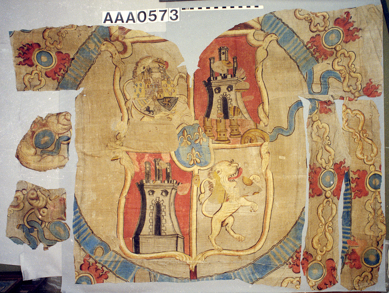 Spanish flag Fragments of a Spanish flag patched with pieces of a smaller Spanish flag. It was captured from Moro Castle, Havana, which was stormed on 30 July 1762. The flag is made of white linen painted with Spanish Royal arms, quartered with the arms of Castille and Leon with the Bourbon arms in the centre surrounded by the collar of the Order of the Golden Fleece. It has been patched with parts of two other Spanish flags, one of which shows the complete Royal arms. Record Shot - Do not reproduce.